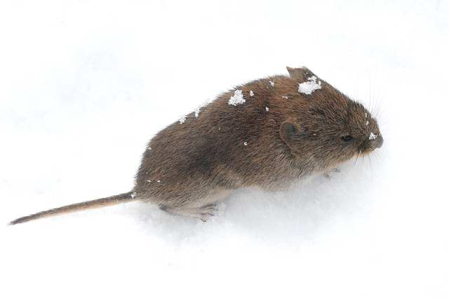 Microtus agrestis from Commanster, Belgian High Ardennes .